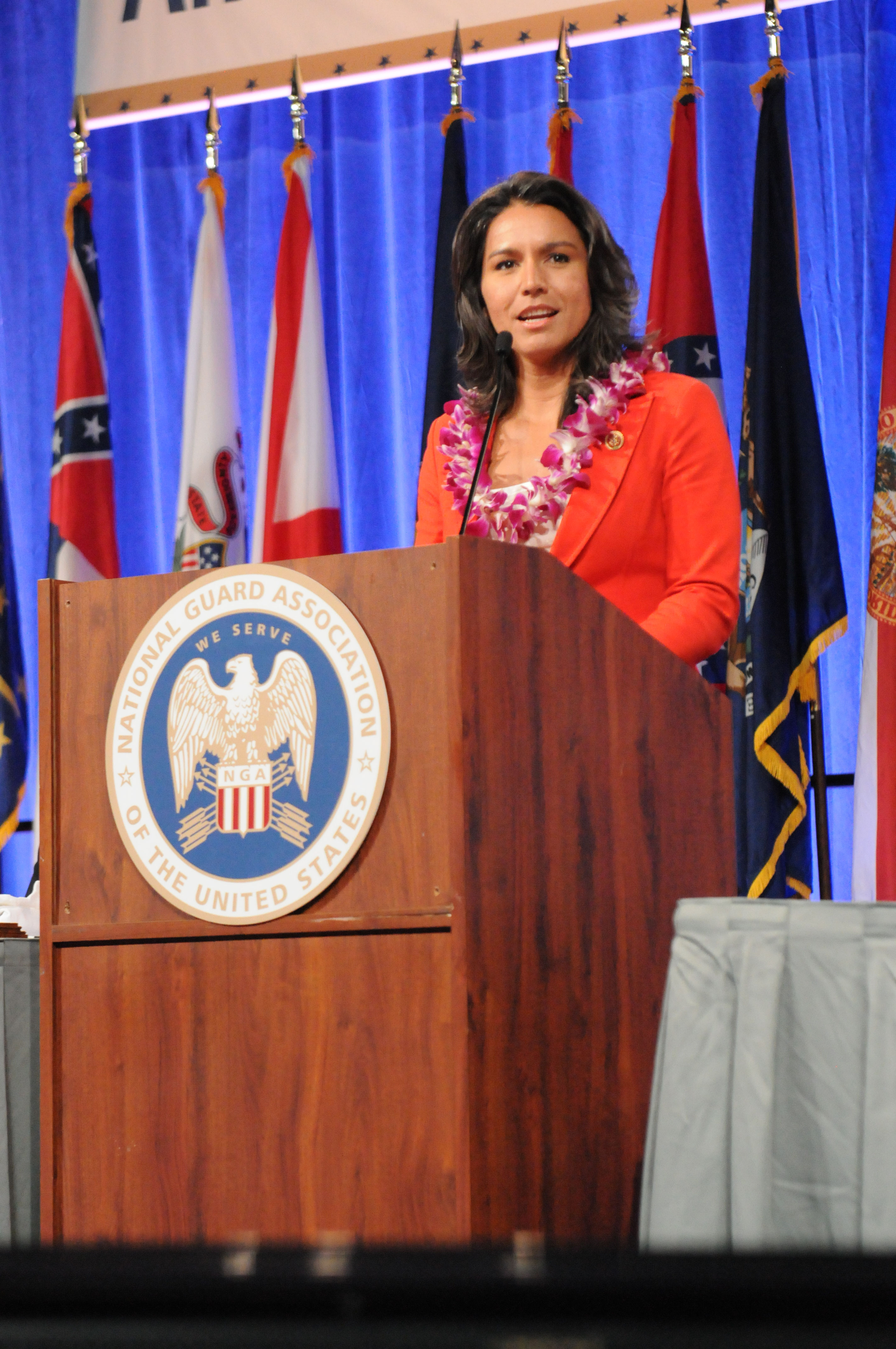 Congresswoman and Hawaii National Guard officer Tulsi Gabbard speaks at the 135th Annual National Guard Association of the United States conference in Honolulu, Sept. 20-23, 2013. The NGAUS conference takes place at a different location every year discussing topics that greatly affect or impact the National Guard now and in the future.